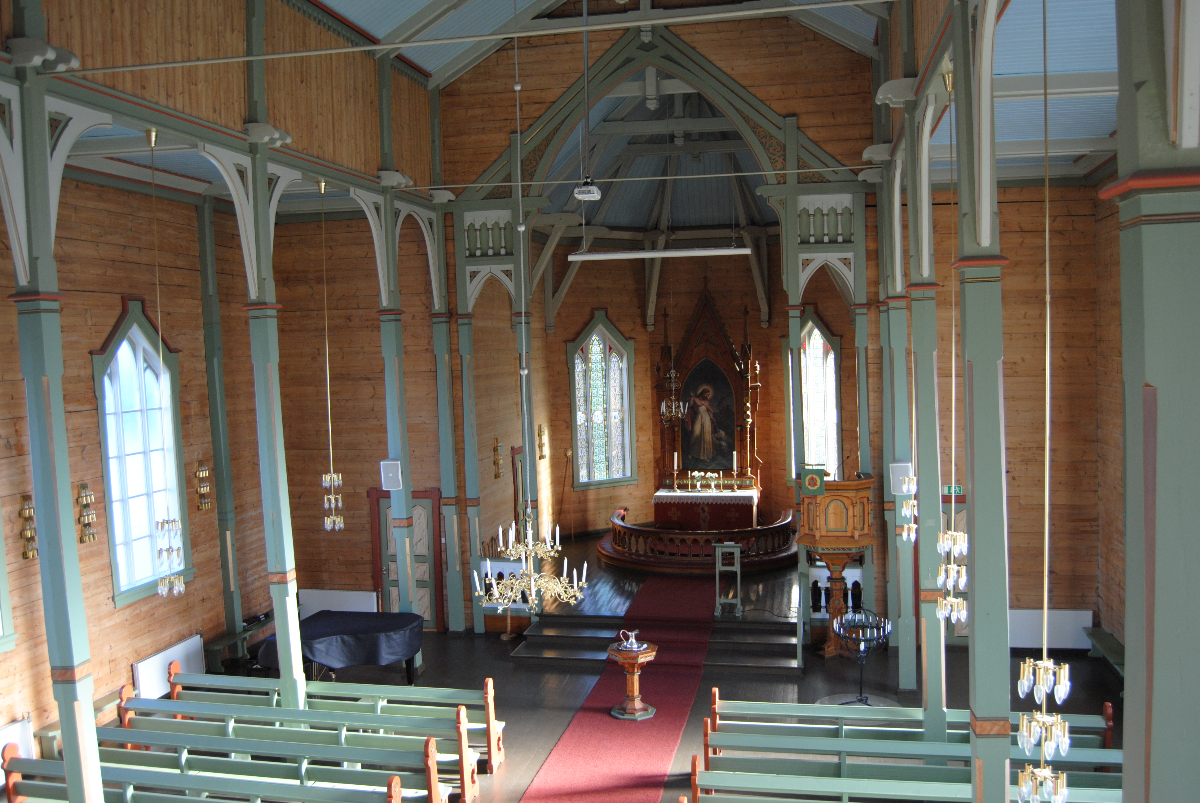 Manger church seen from the gallery